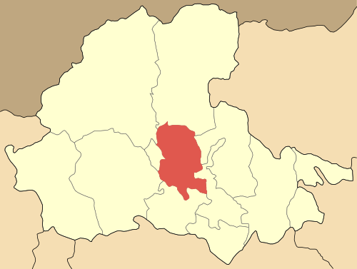 Locator map of Meniidos municipality (Δήμος Μενηίδος) at Pellas perfecture, Macedonia, Greece.